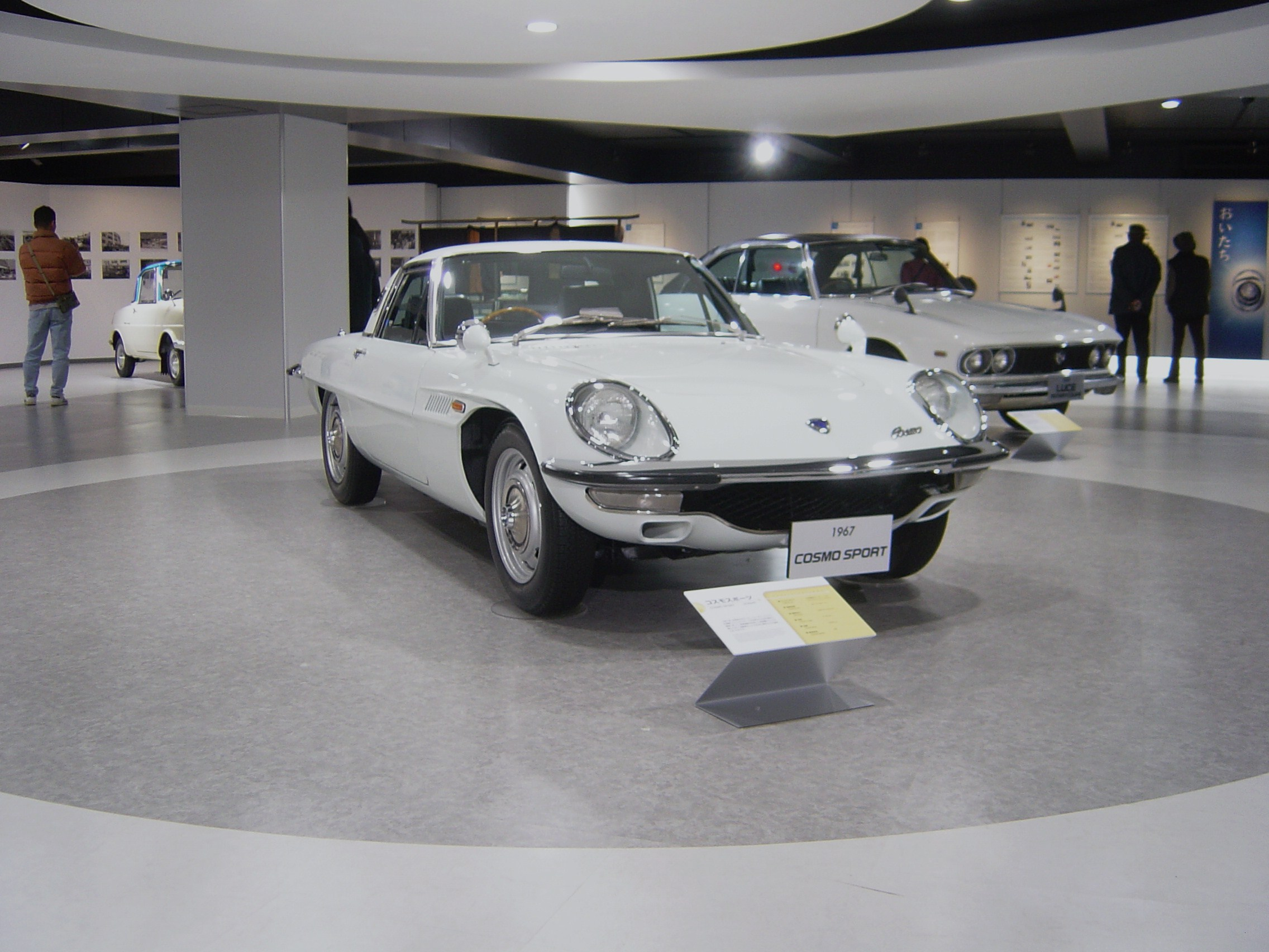 1967 Mazda Comso Sport, photographed at the Mazda Museum. It is an L10B (Series II) model.